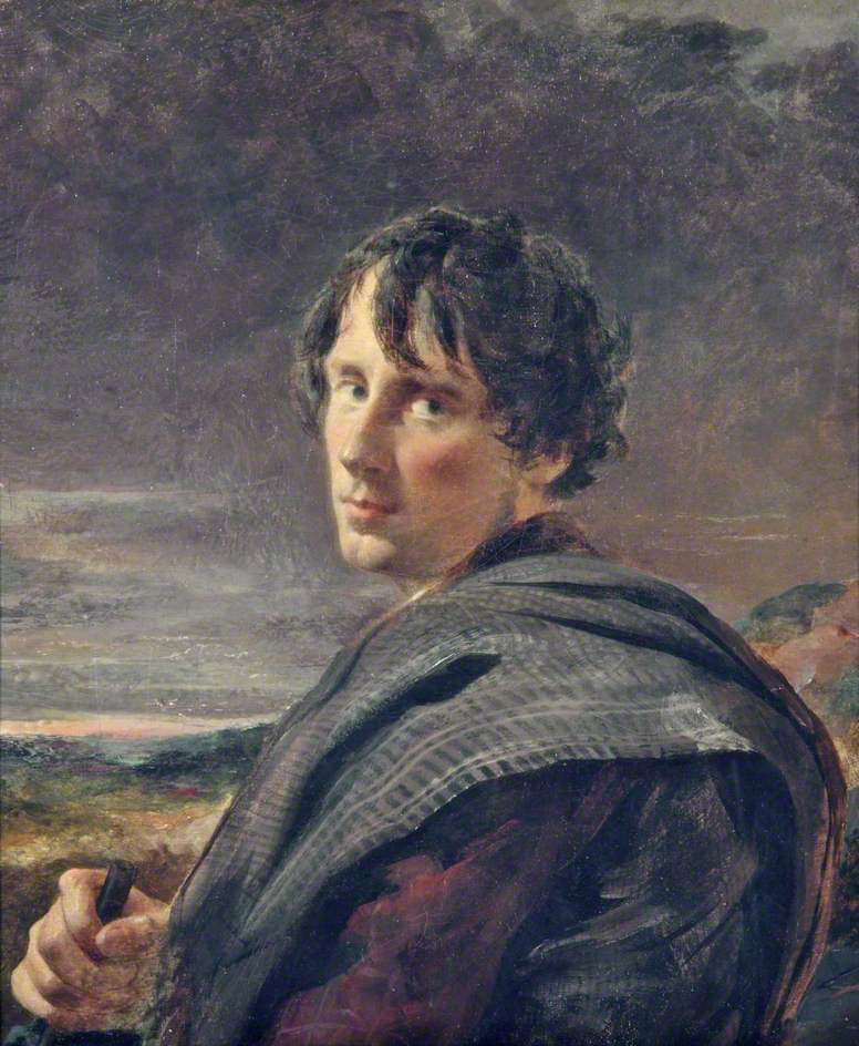 Self portrait oil on canvas 35.8 x 30.7 cm circa 1852